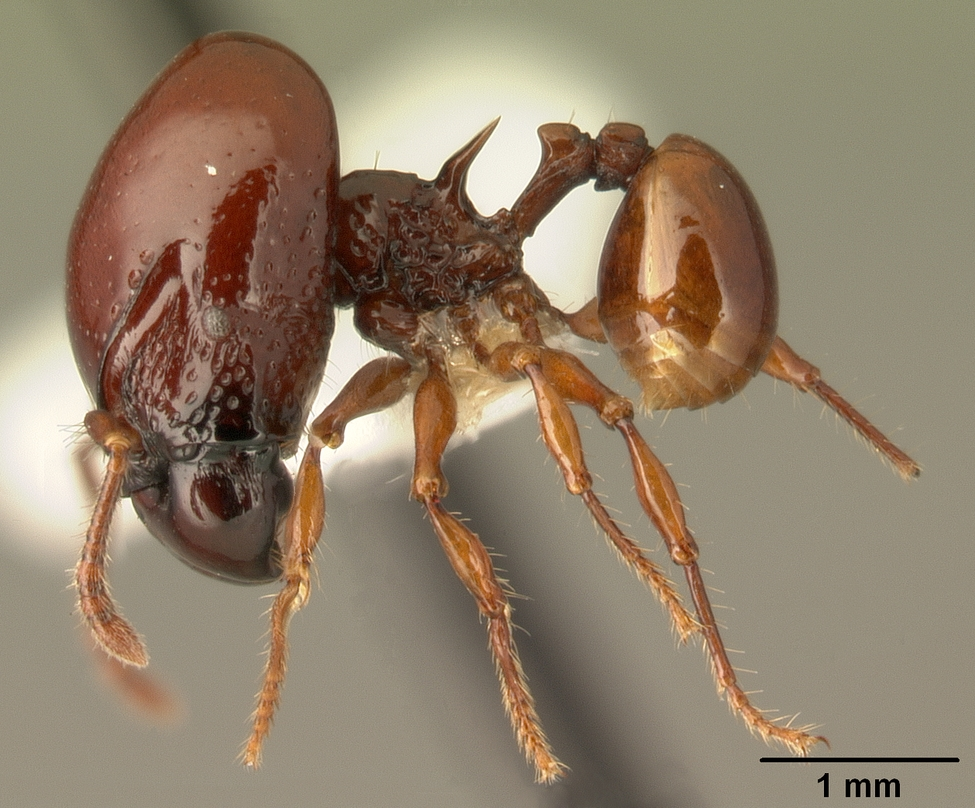 Profile view of ant Acanthomyrmex concavus specimen casent0101062.